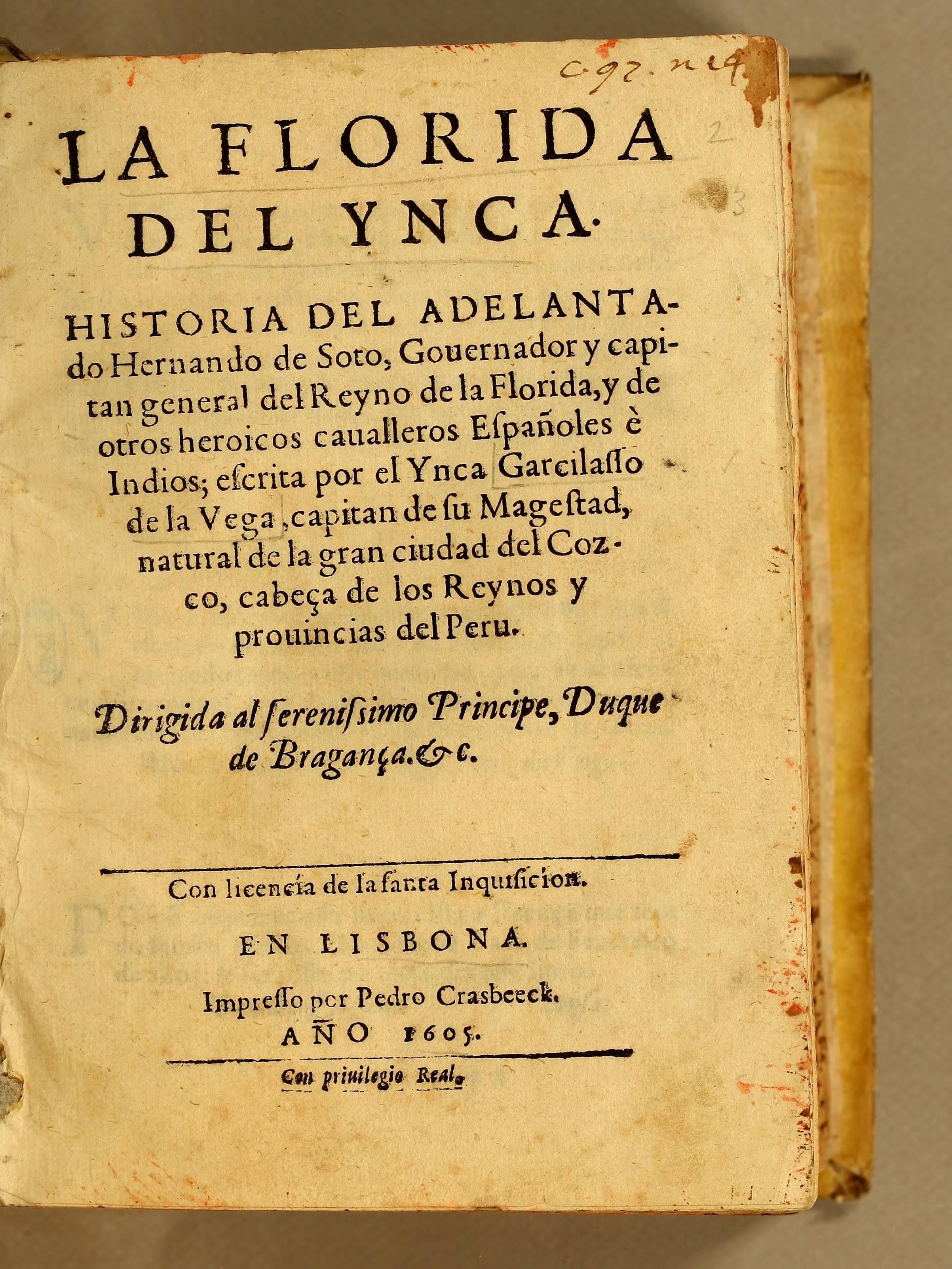 Title page of Garcilaso de la Vega's La Florida Del Ynca (Lisbon, 1605)